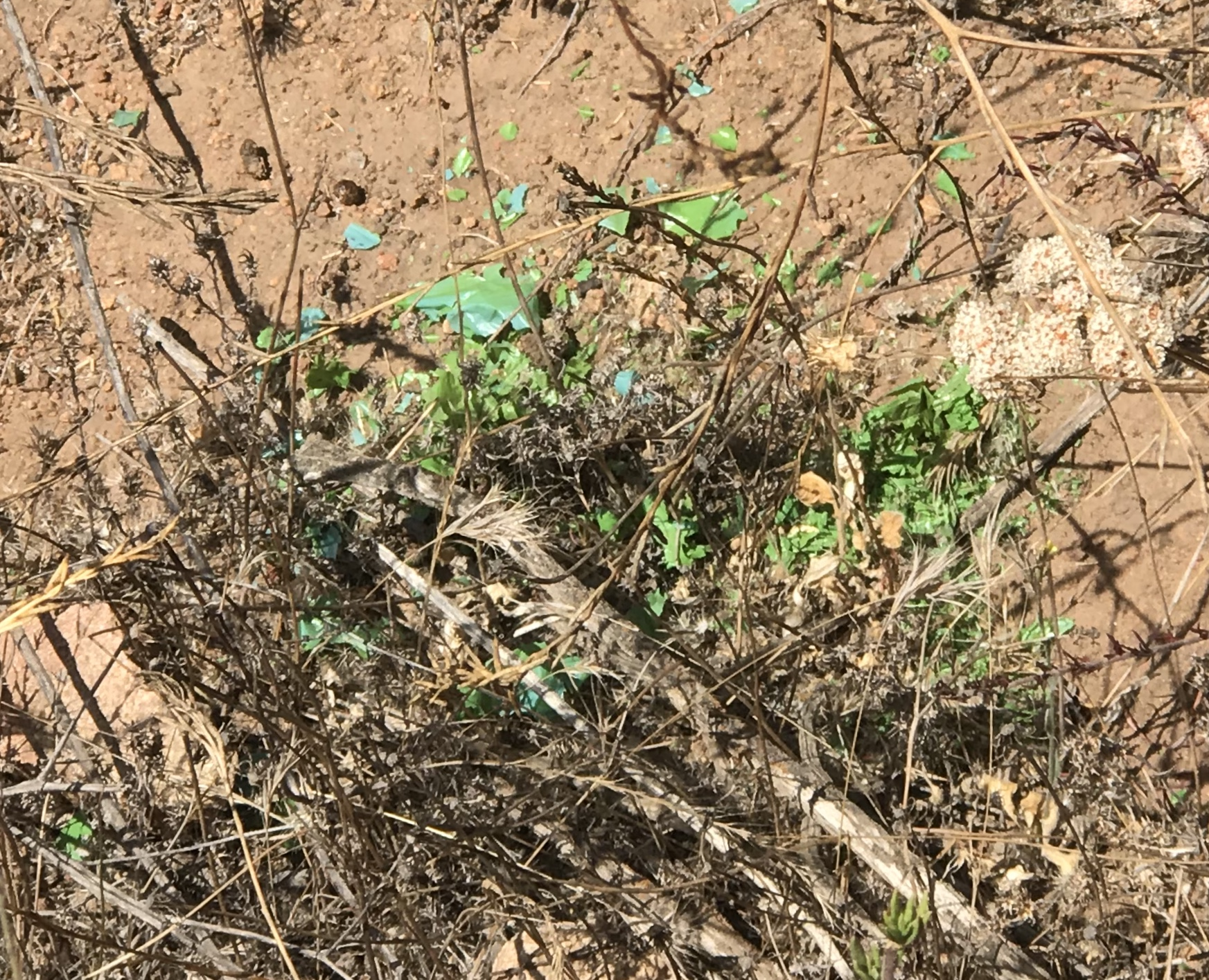 Plastic dog waste bag photo degraded. Approximated 3 months of exposure with almost zero rain. When disturbed, the bag disintegrated into several hundred small pieces about 1-5 mm each. Clean Trails event.